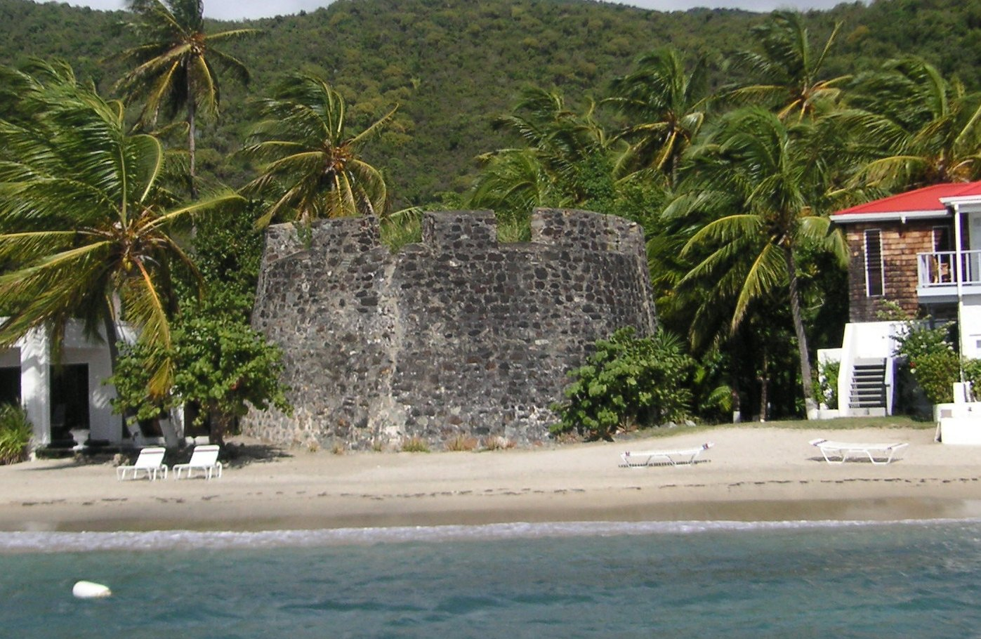 Photograph of Fort Recovery, Tortola, British Virgin Islands (December 2006)